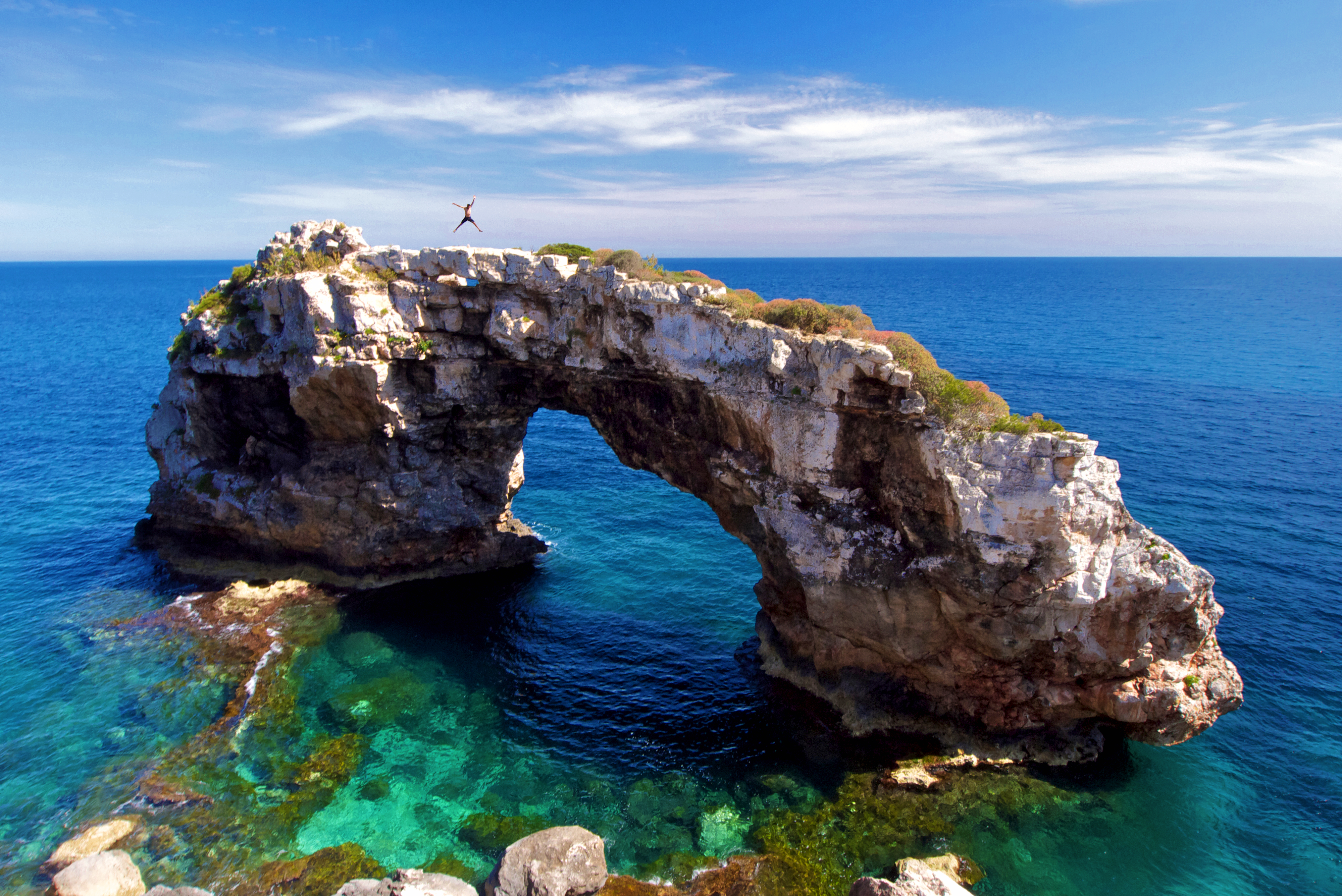 Jumping on the beautiful arch of Es Pontàs, found in Cala Santanyí, Mallorca, Spain.